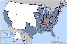 1852 elections in USA